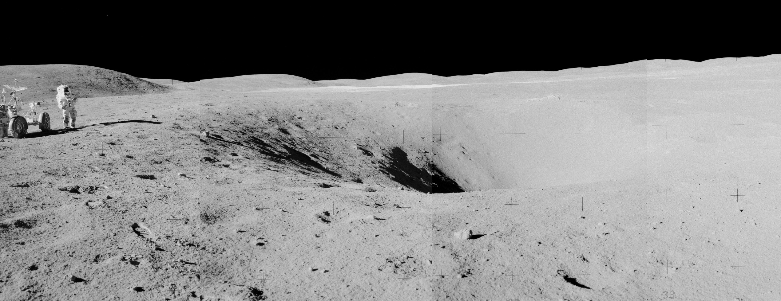 Plum crater, next to Flag crater, Descartes Highlands, 1.5 km west of Apollo 16 landing site, and viewed facing southwest during EVA 1. Commander John Young at left next to rover. South Ray crater is the white line near the horizon. Photographs by astronaut Charles Duke.